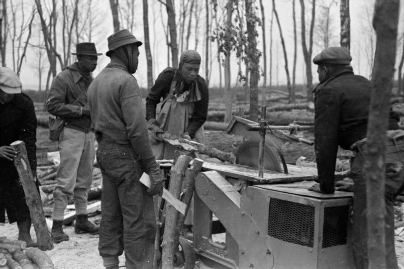 The British Honduras Forestry Unit in Britain, 1941 Members of the British Honduras Forestry Unit sawing wood in a forest in Britain.